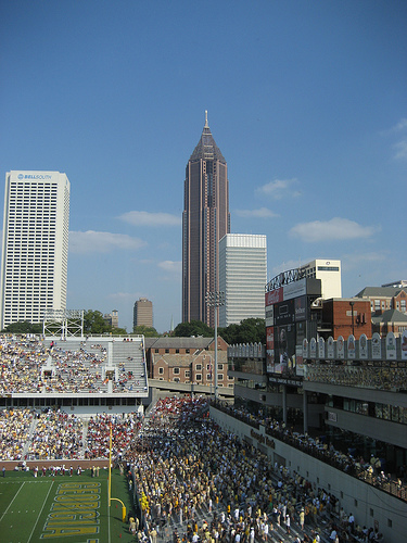 BellSouth building, Atlanta, Georgia with Bobby Dodd Stadium in the foreground